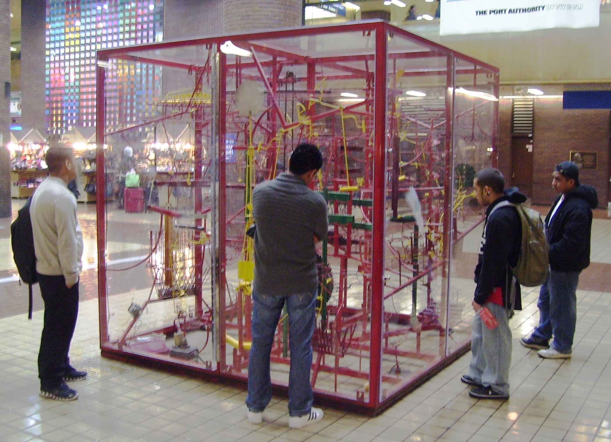 People watching George Rhoads' rolling ball sculpture 42nd Street Ballroom (1983) in the north building of the Port Authority Bus Terminal on Eighth Avenue and 42nd Street in midtown Manhattan, New York